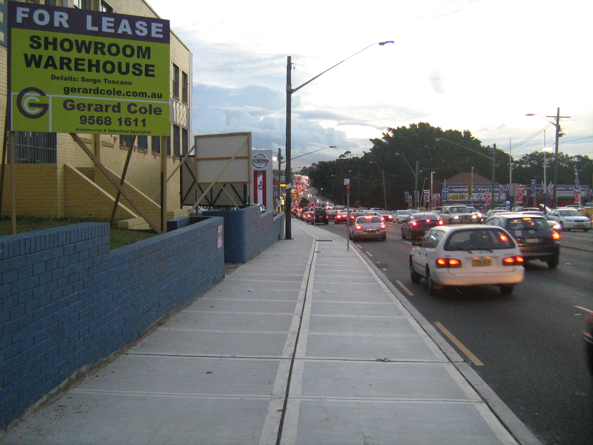 Looking westward along Parramatta Road at Burwood, New South Wales.